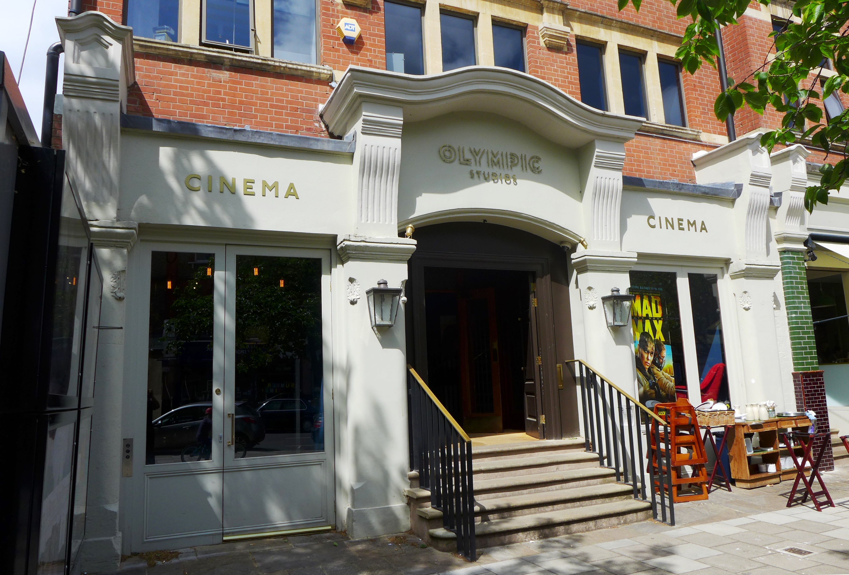 Known for a long time as a recording studio, now a boutique cinema and a cafe/restaurant next door. (It was originally a cinema until 1953.) Address: 117–123 Church Road. Owner: (website). Former Name(s): New Vandyke Cinema; Plaza Cinema; Barnes Super Cinema; Ranleigh Cinema; Barnes Theatre; Picture House; Byfield Hall. Links: Randomness Guide to London Cinema Treasures